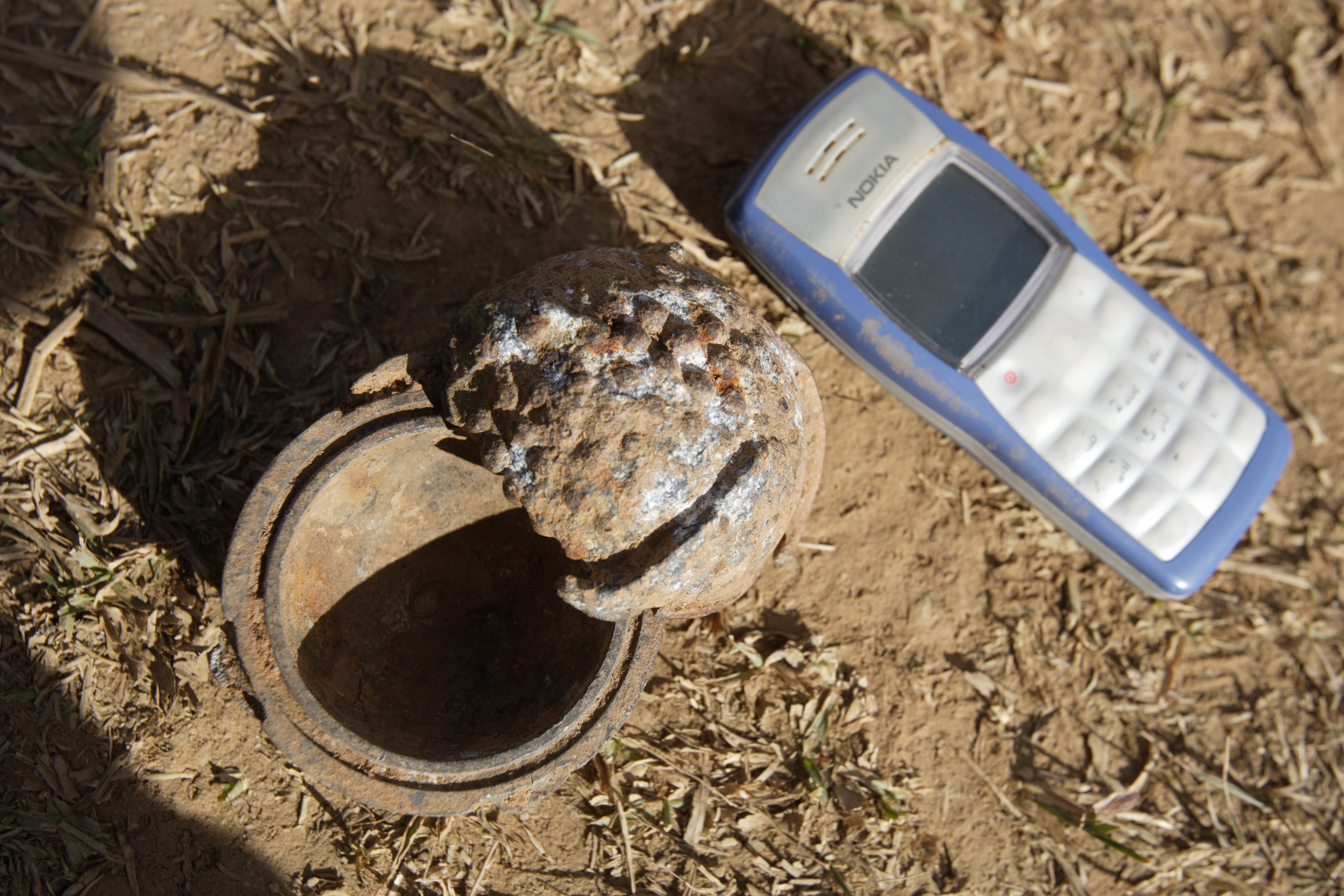 The case of a BLU 26 anti personnel device. Taoun Village, Laman District, near Sekong, Lao PDR 2009. Photo: Jim Holmes